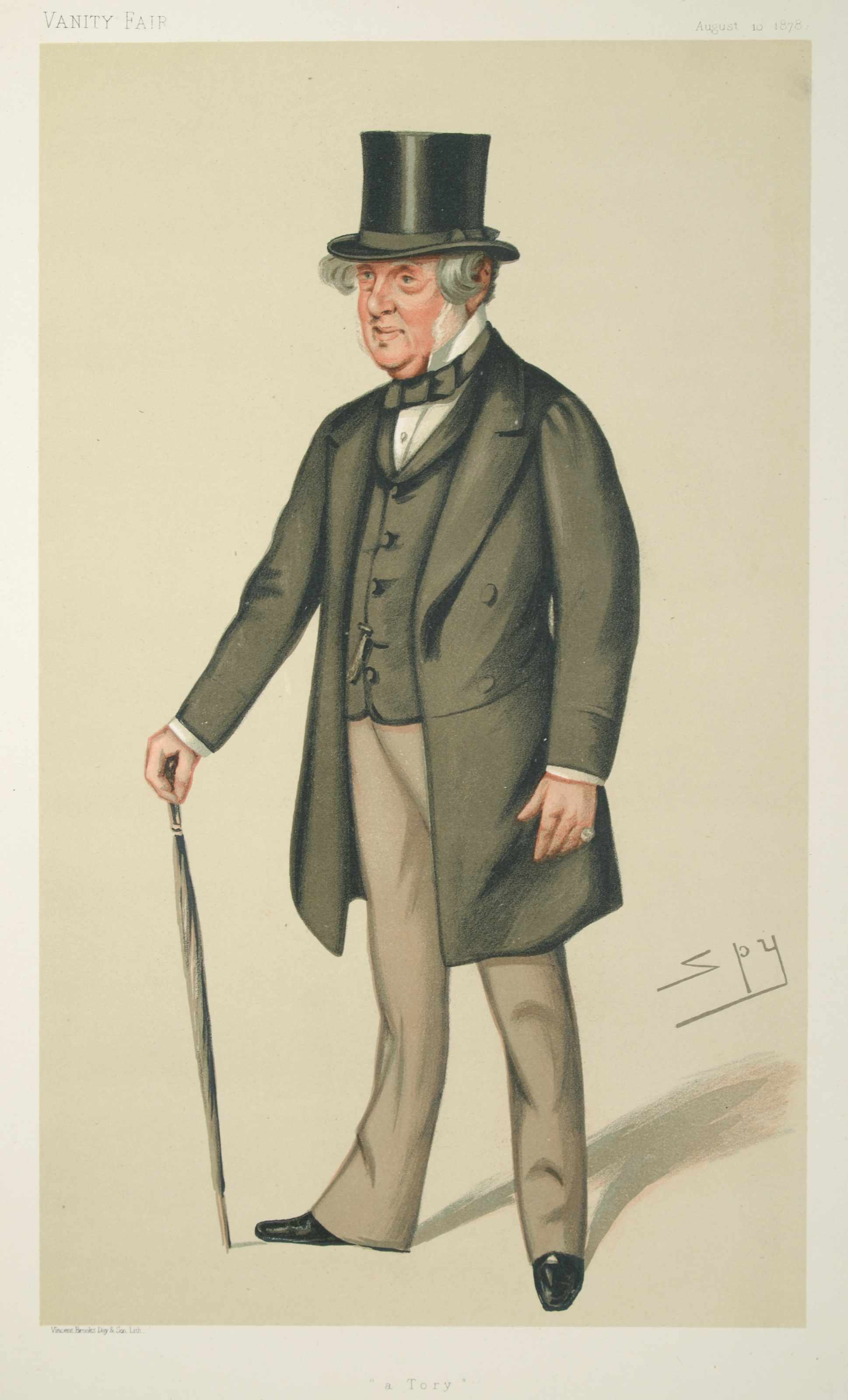 Statesmen No.277: Caricature of Col John Sidney North MP. Caption reads: "a Tory"